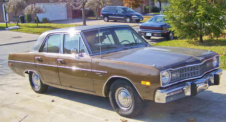 1973 Dodge Dart Custom sedan, front 3/4 view